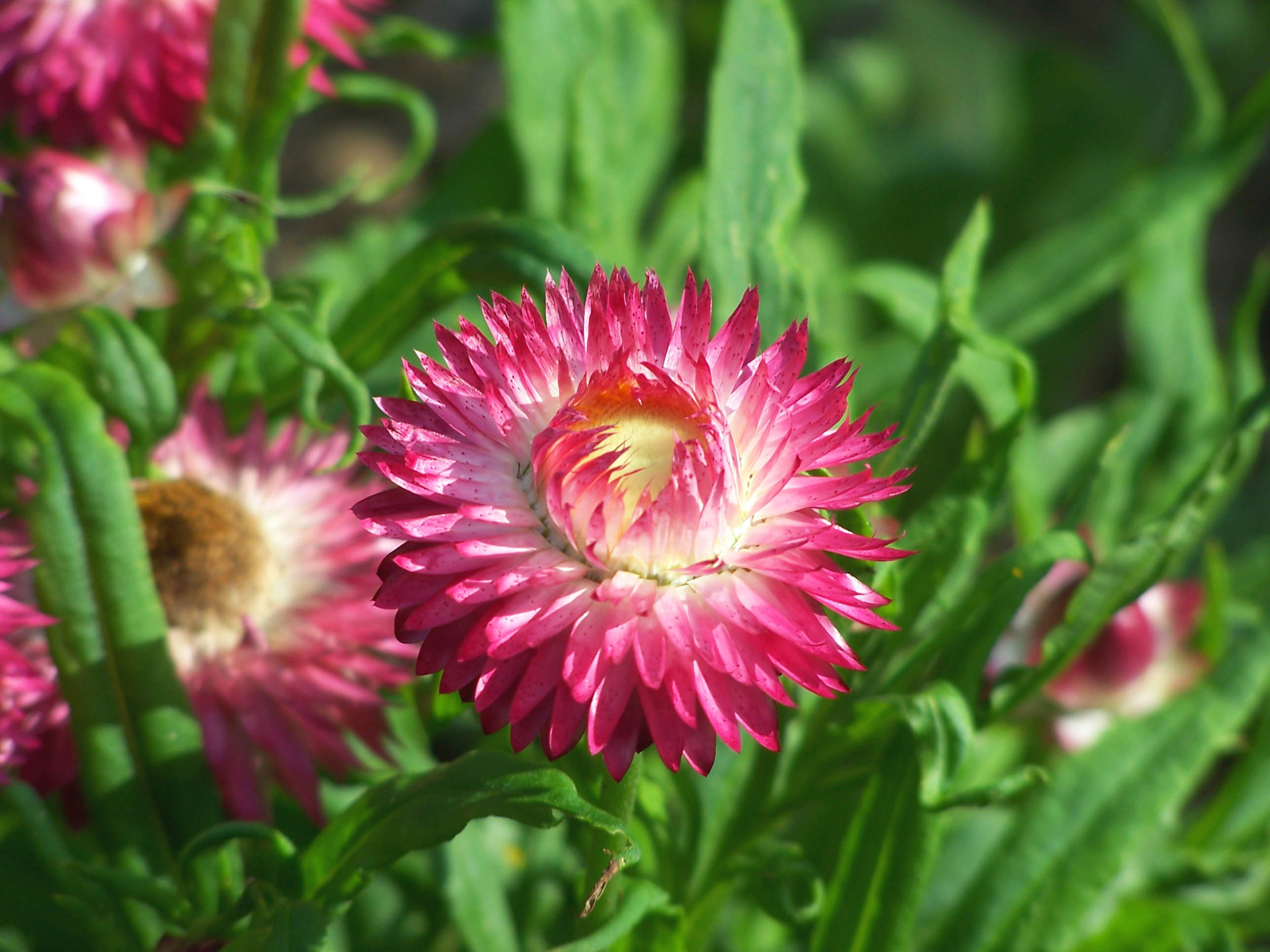 Xerochrysum bracteatum, Asteraceae